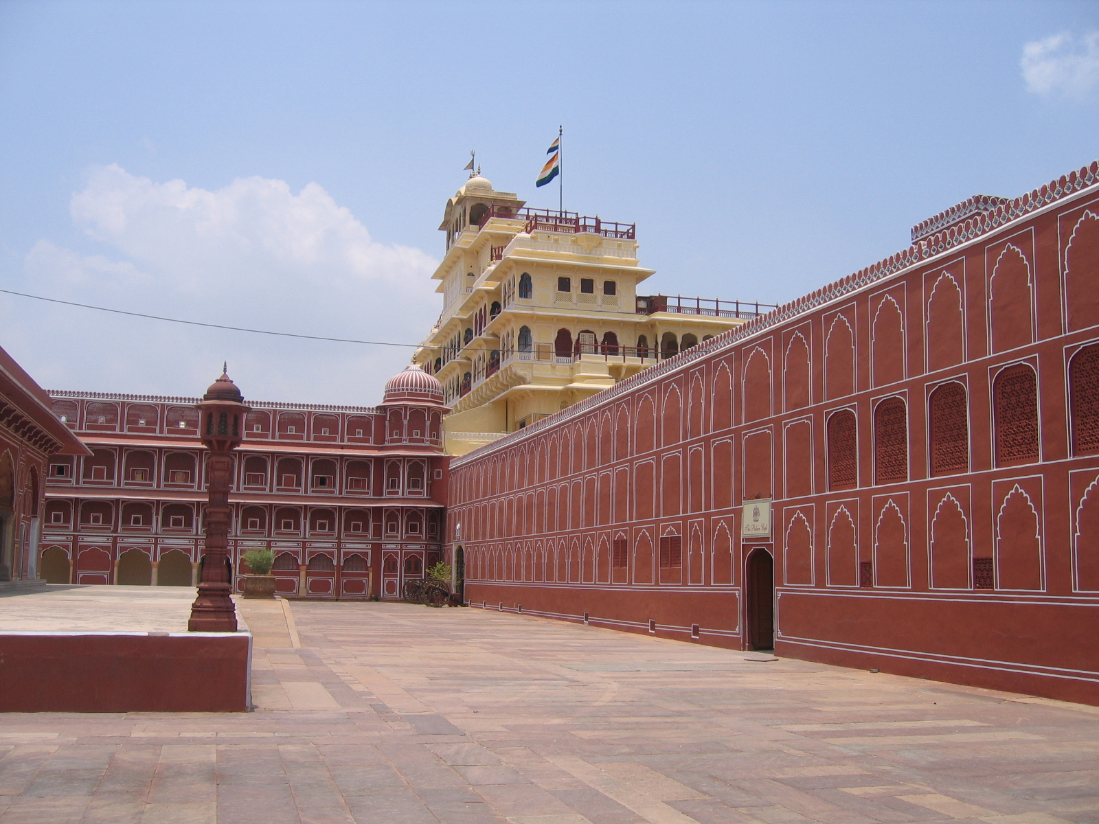 This is a picture of City Palace Museum, Jaipur. It is a former royal residence and now houses some of the finest pieces of arts and crafts. It also displays the largest silver utensils in the world.